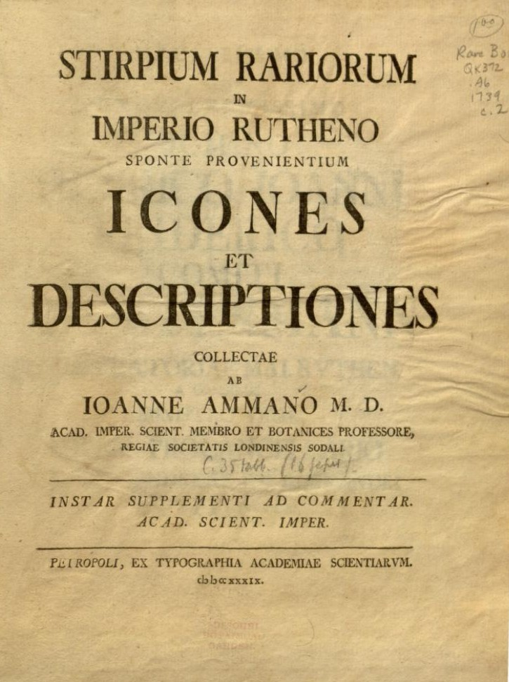 Cover of "Stirpium Rariorum"